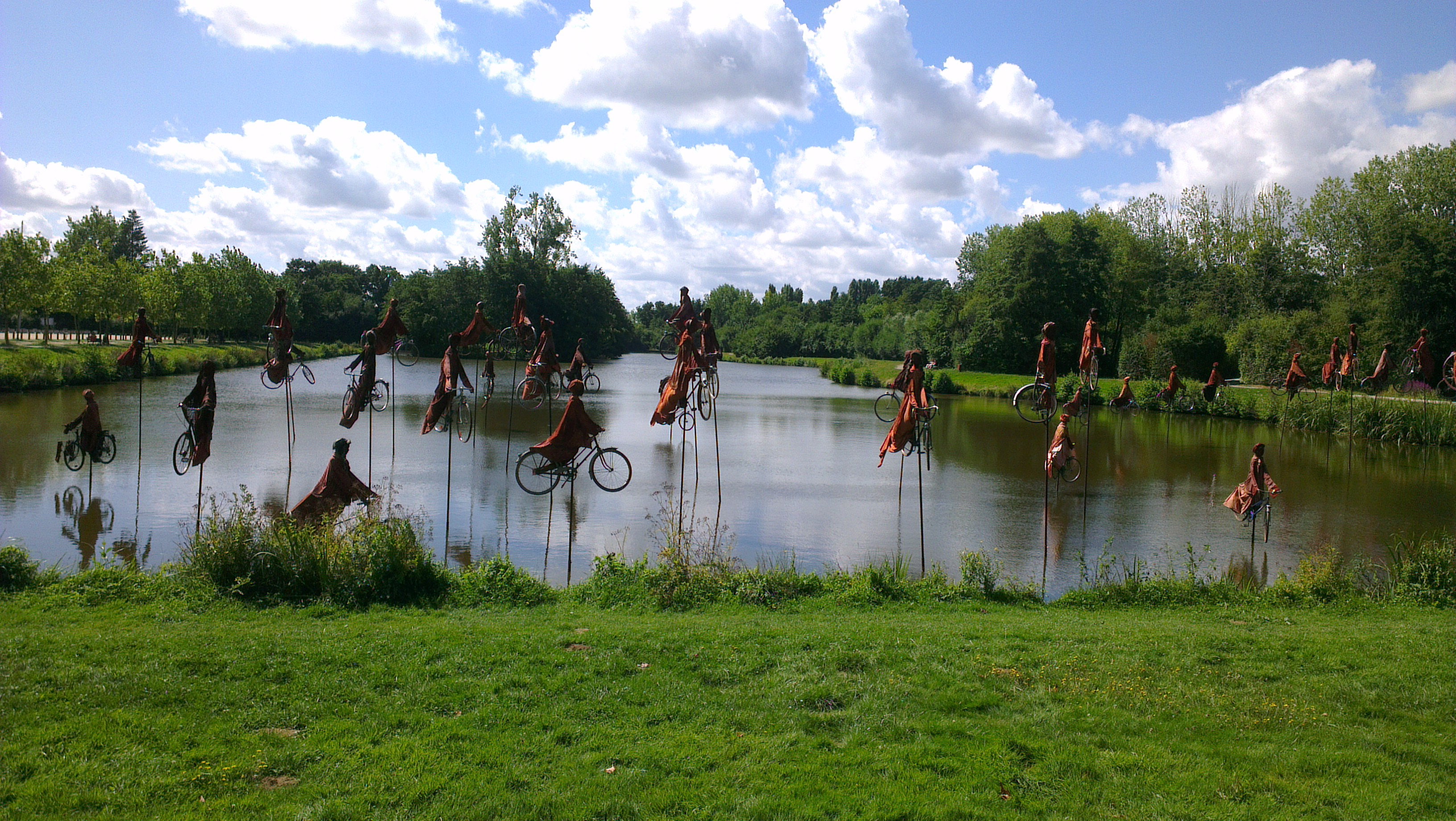 Betton, little town in France - North-South view of the water body